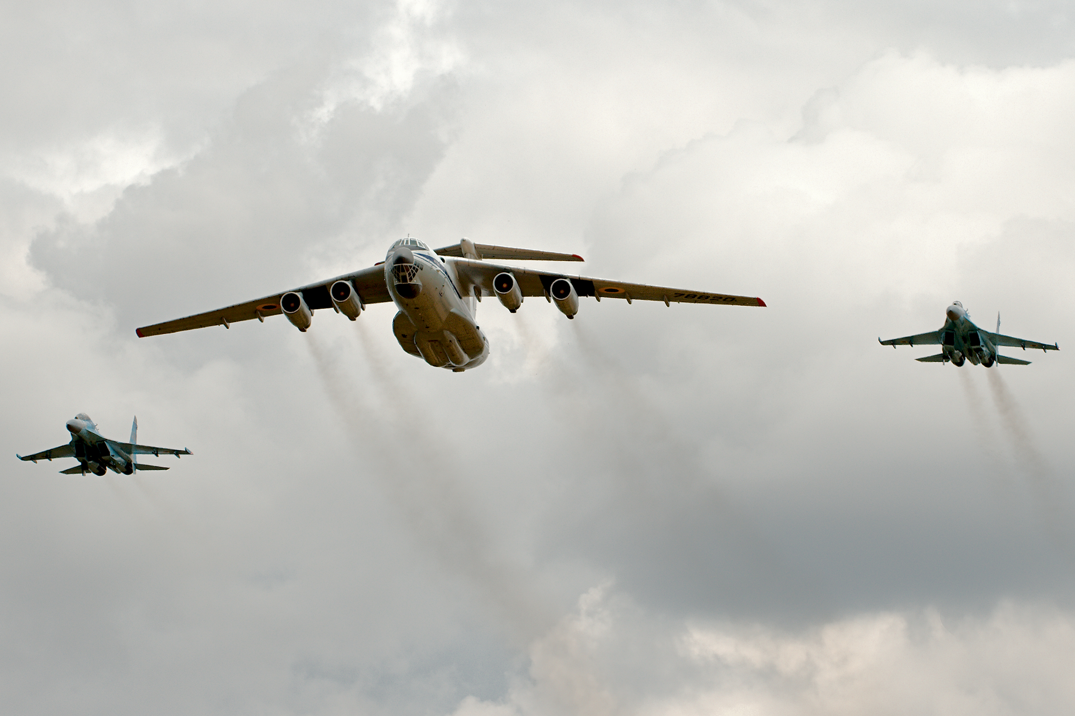 IL76 & SU27 - RIAT 2017